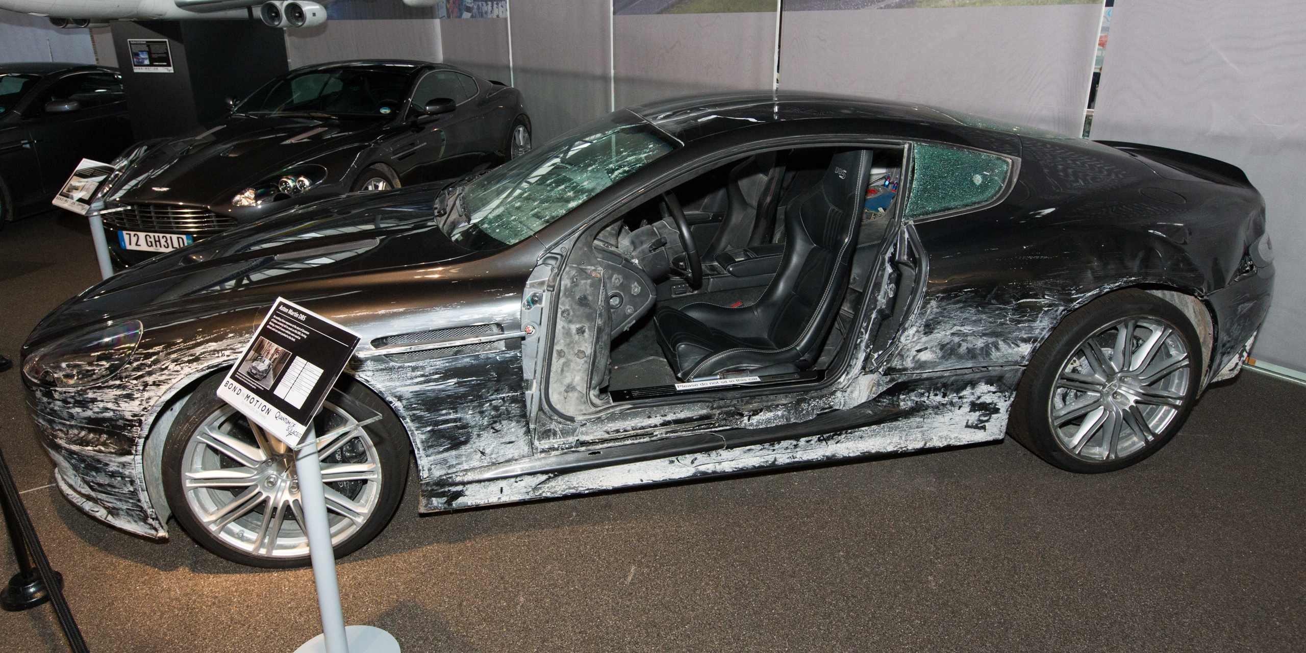 Aston Martin DBS, from "Quantum of Solace" (2008)